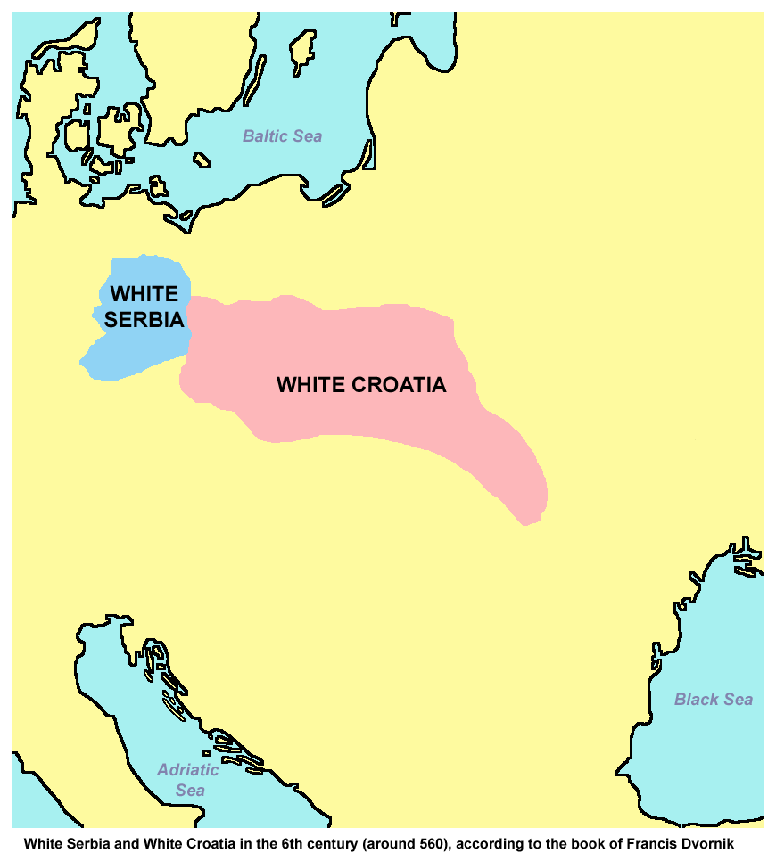 Map showing the White Serbia and White Croatia in the 6th century (around 560), according to the book of Francis Dvornik.